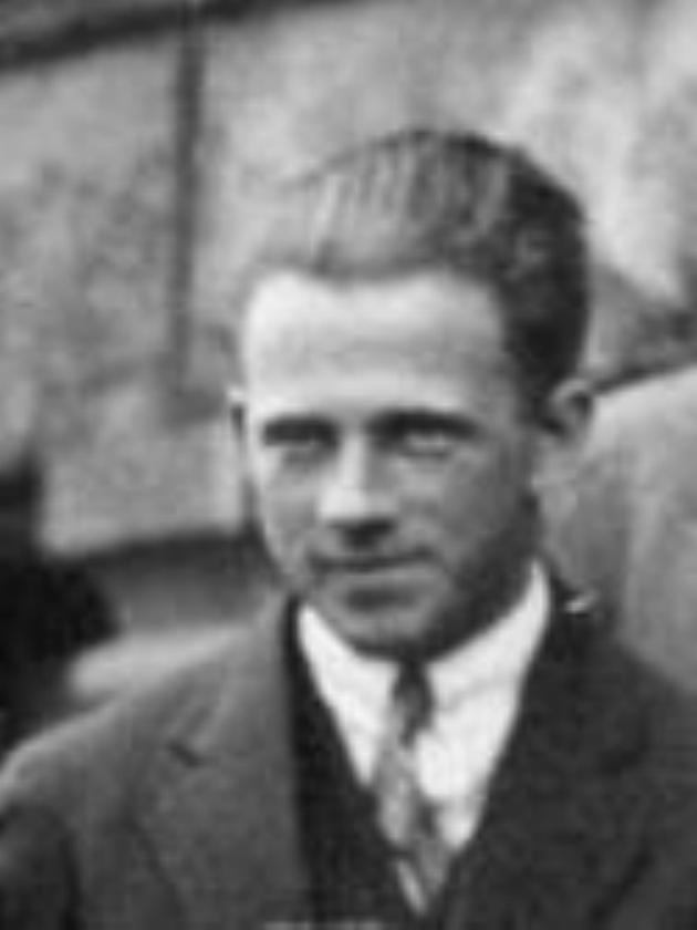 Werner Heisenberg at 1927 Solvay Conference (cropped from [1])